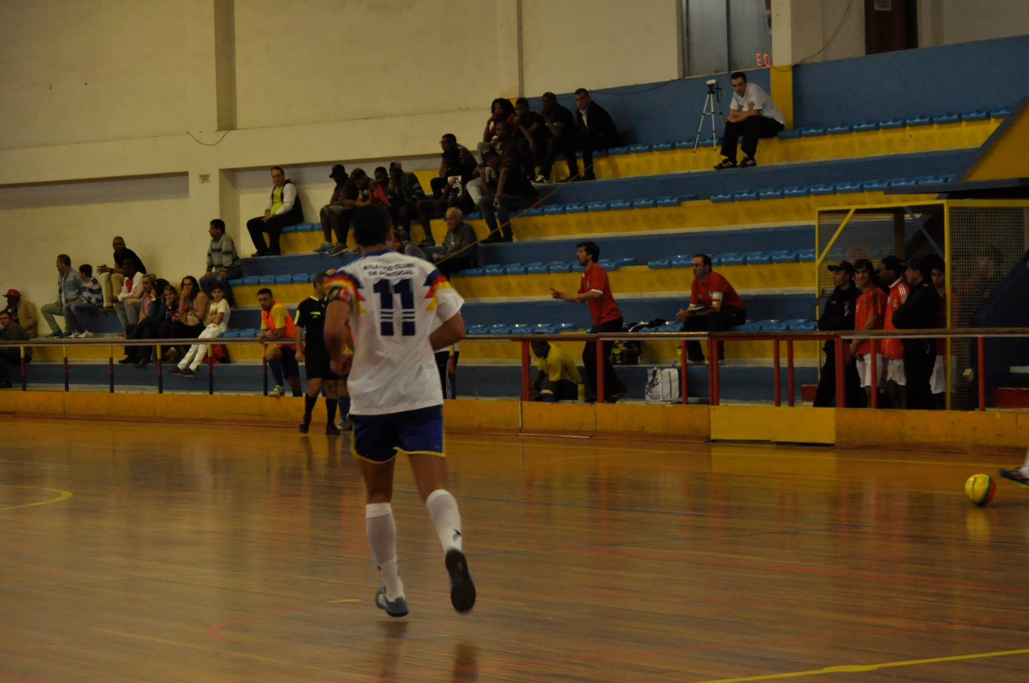 Atlético 2-4 Leceia (3ª Divisão – Série D, 2013/14)